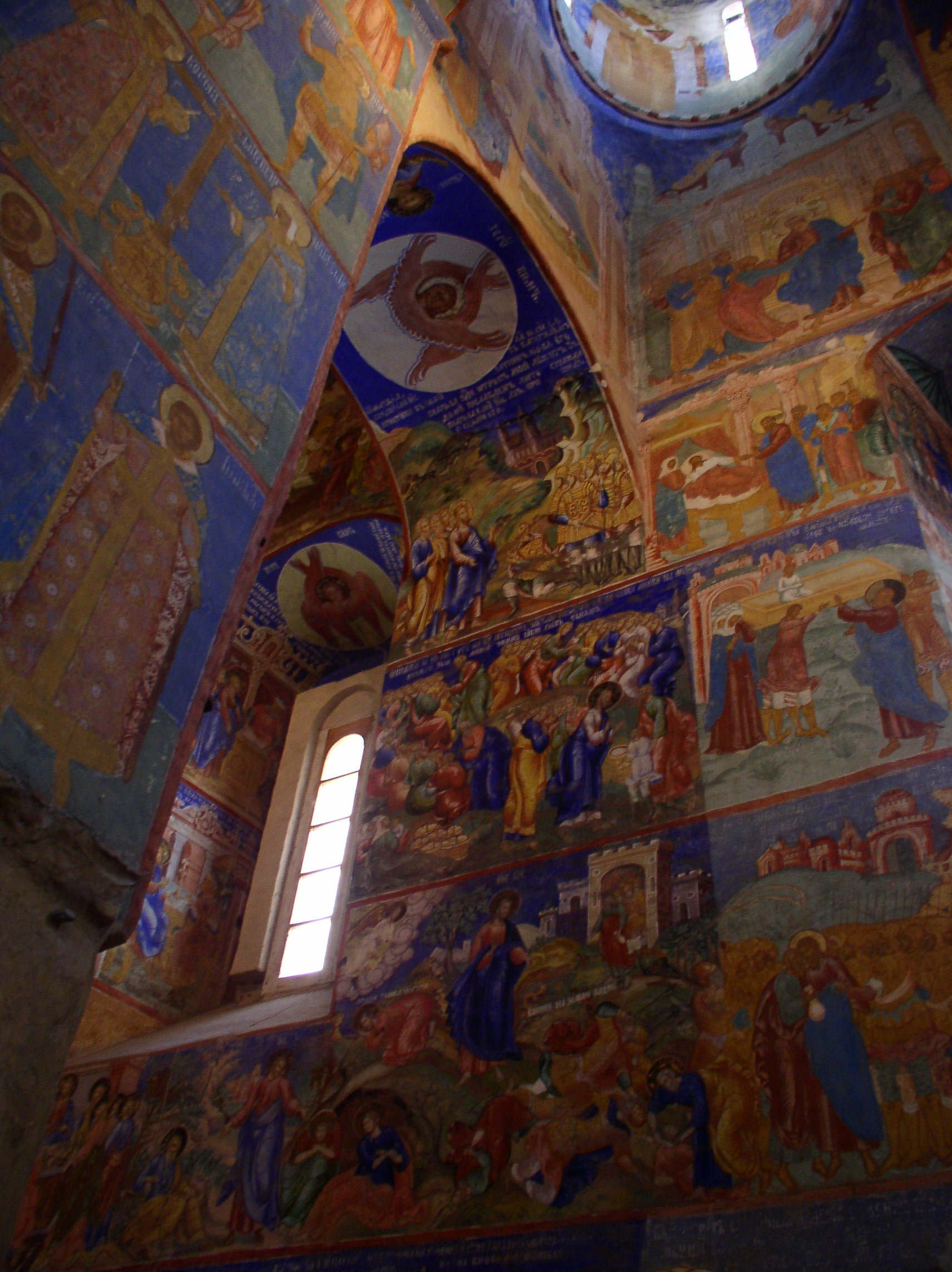 Transfiguration Cathedral. Suzdal, Russia.